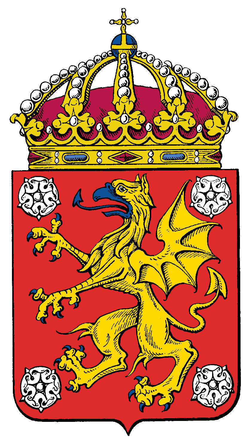 Coat of arms of the province of Östergötland